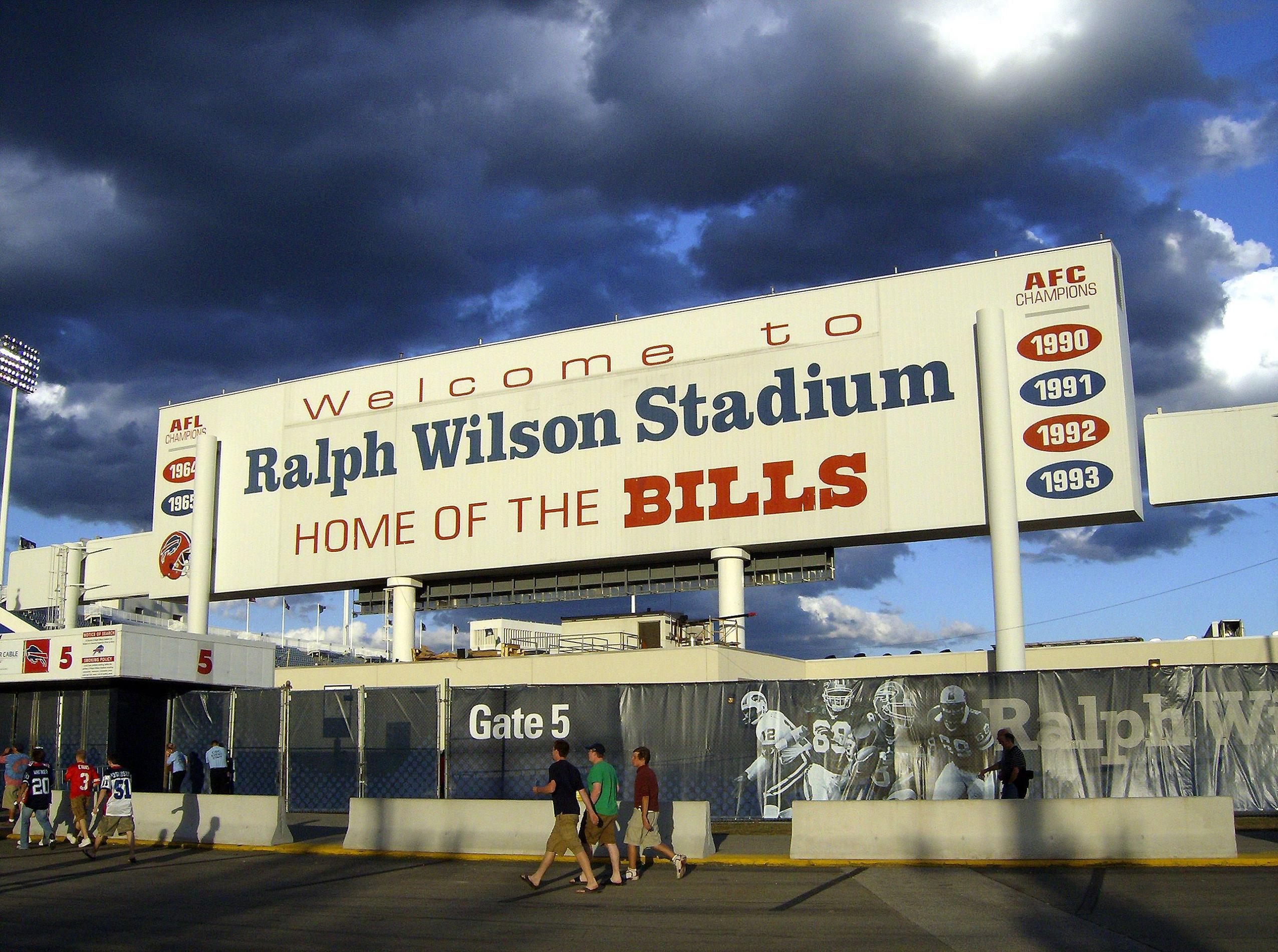 Ralph Wilson signage display past glories